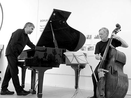 Mads Vinding, Jean Michel Pilc